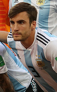 Argentina vs Nigeria match